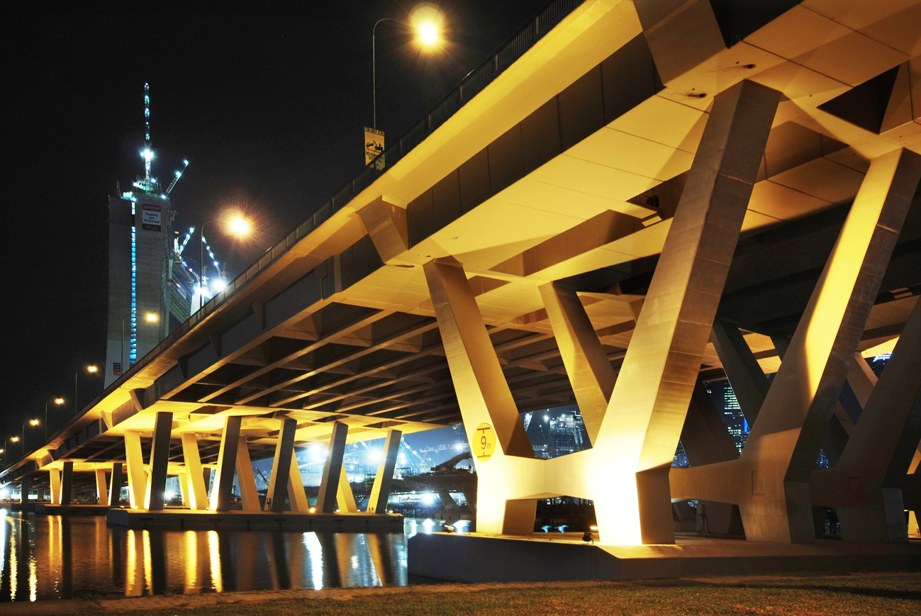 Built almost entirely on reclaimed land, the East Coast Parkway (ECP) opened in 1981. From the airport to the city centre it takes less than 15 minutes on a good day. Shot taken below the ECP at Marina Bay.